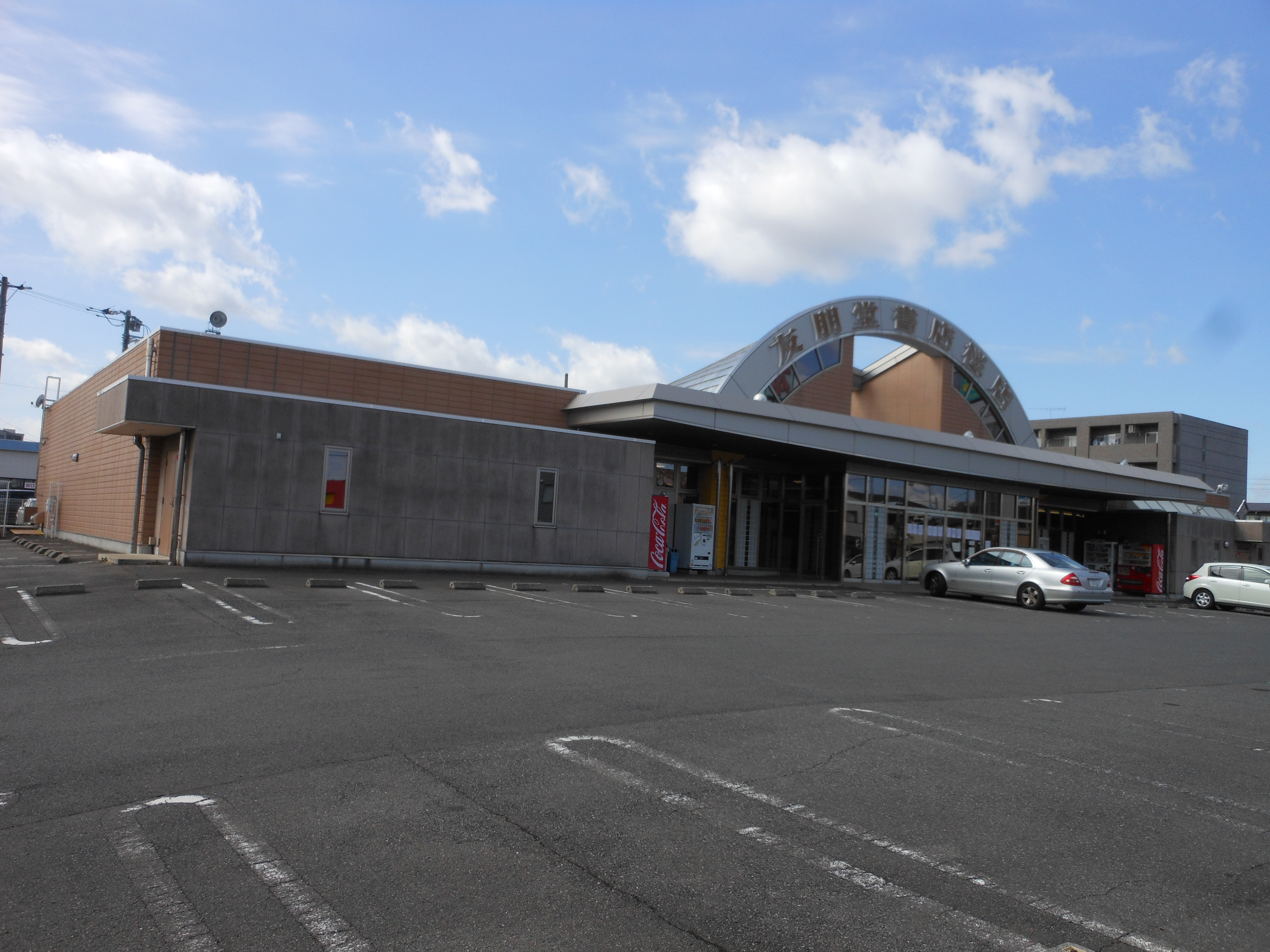 This was the bookstore "Yuhodo shoten Sakura Shop".